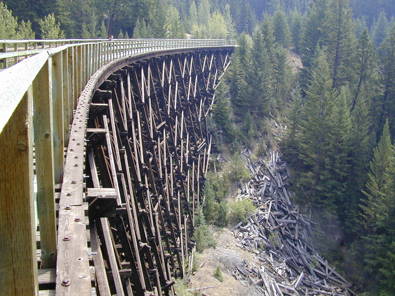 Photograph of Myra Canyon Rail Bridge near Kelowna taken just days before it was destroyed by fire. Uploaded by Jamie Edwards ~ Landmark Internet Kelowna.